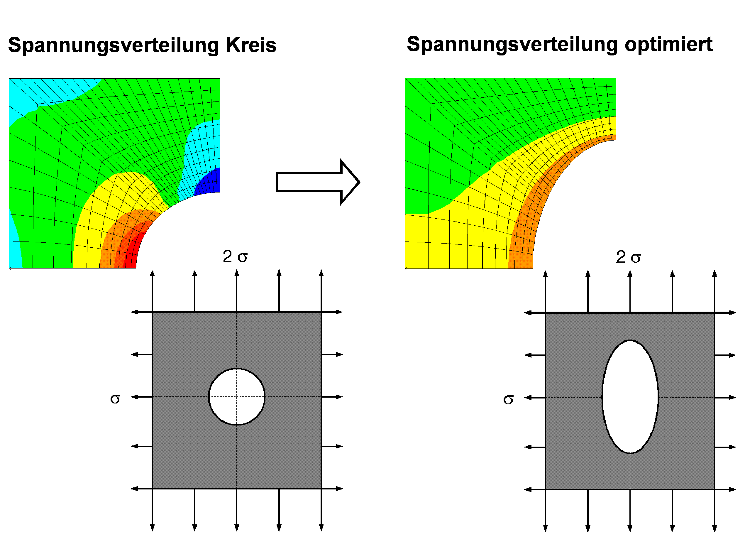 opt of bi-axial loaded plate